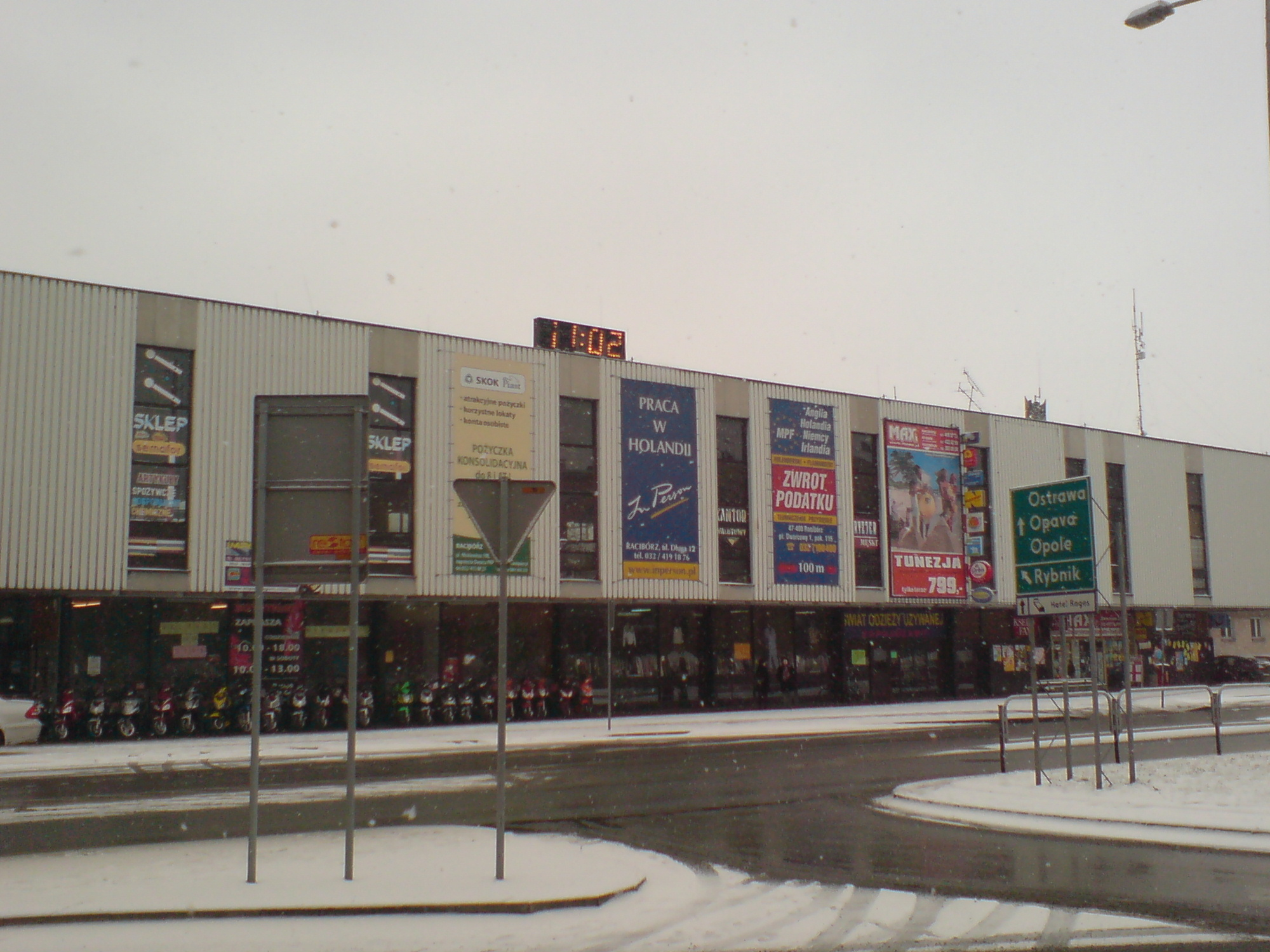 Racibórz train station